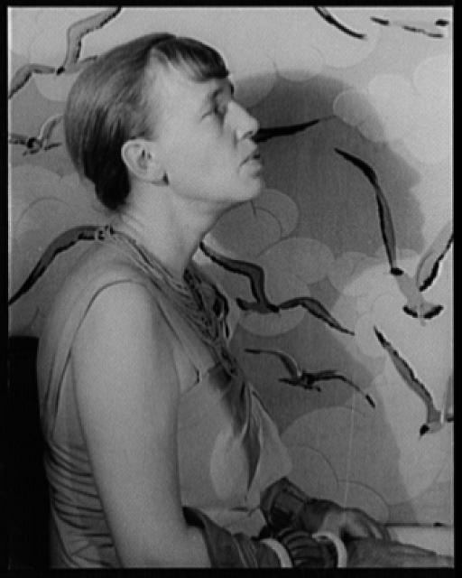 Title: Portrait of Muriel Draper Abstract: 1 photographic print : gelatin silver.